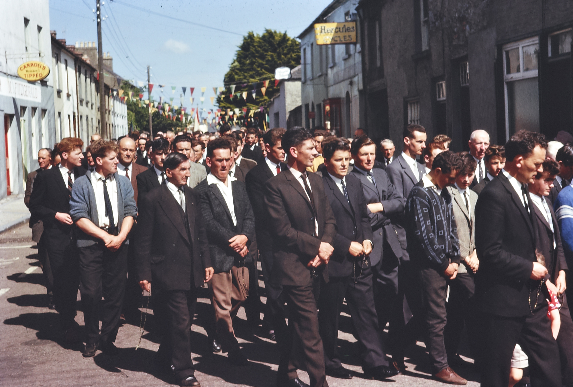 A large group of men in a religious procession would not have been unusual at that time but might be hard to muster today. As this is relatively recent we are still hopeful that someone "local" might be able to put some local colour on this image or perhaps even identify some of the participants. In the meantime however, thanks to [/photos/91549360@N03/ O Mac] for establishing location, and [/photos/beachcomberaustralia/ beachcomberaustralia] for the info on the advertising signs pictured, and to everyone else for the extra context on the period, fashion and norms of Corpus Christi processions of the period! Photographer: Richard Tilbrook Collection: Tilbrook Photographic Collection Date: 1963 NLI Ref: TIL717 You can also view this image, and many thousands of others, on the NLI’s catalogue at